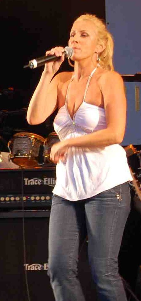 Sara Dallin of Bananarama live in Audley End, Essex, UK, 28 July 2007